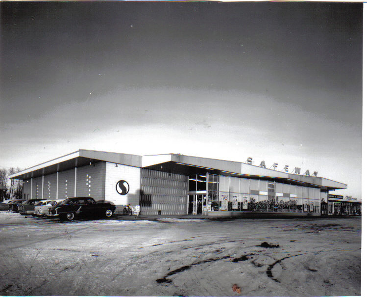 The Safeway store, Sherwood Park's only supermarket in 1961, I walked passed the Safeway store every day on my way to the two room school house a hundred yards away where I attended Grade 1, 1962/63. The building remains today but no longer a Safeway store in 2009.